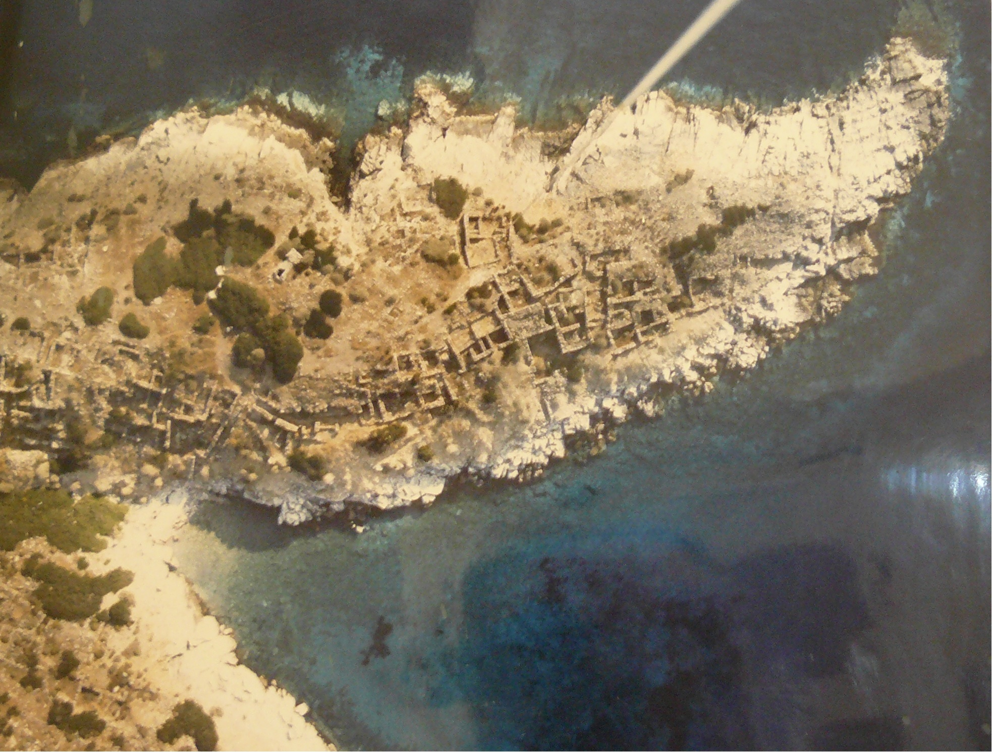 The archaelogical site on the island of Psira, Crete. Part of a aerial picture displayed in the archaelogical museum of Sitia.